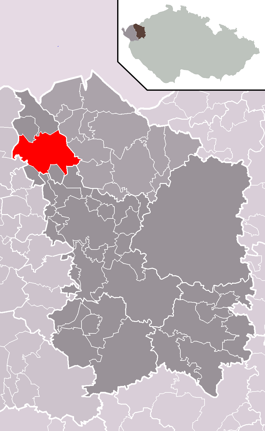 Location of Nejdek town within Karlovy Vary District and administrative area of Karlovy Vary as a Municipality with Extended Competence.